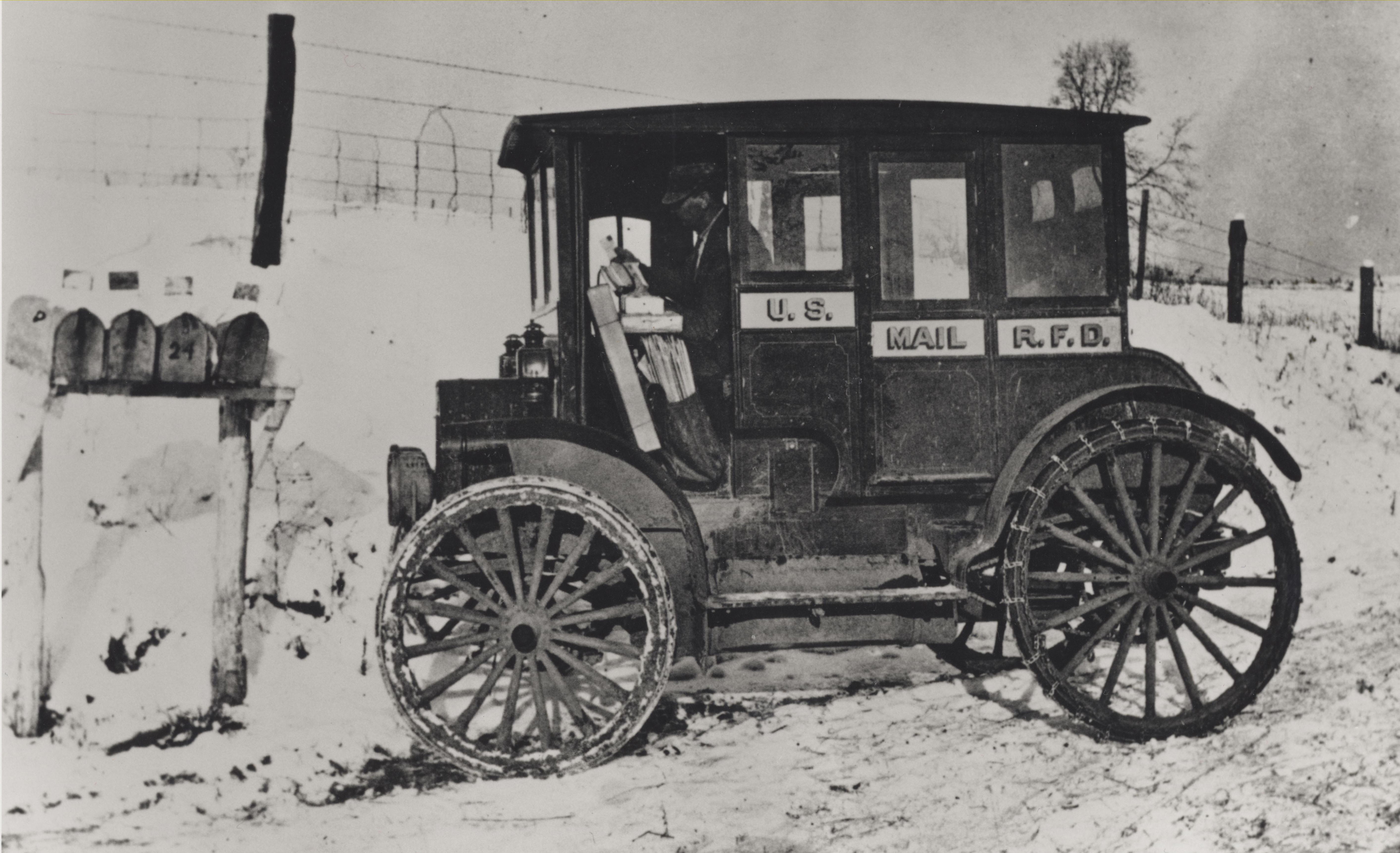 Date: c. 1910 Object number: A.2010-2 Medium: paper; photo-emulsion Dimensions (Unframed): 2 1/4” x 4 1/2" Description: Postal officials encouraged Rural Free Delivery (RFD) carriers to replace their horses and wagons with the latest in transportation technology. This unidentified carrier painted his early electric-motored vehicle in the same paint and identification scheme as the RFD wagons of the era. He is, no doubt, only able to complete his wintertime rounds thanks to a snow-plowed road. Automobiles were not yet adequate replacements for horses, wagons, and sleds on rural roads. Photographer: Unknown Place: United States of America Collection Description: Transportation/Motorized Credit line: National Postal Museum, Curatorial Photographic Collection Photographer: Unknown Repository: National Postal Museum, Curatorial Photographic Collection View more collections from the Smithsonian Institution.